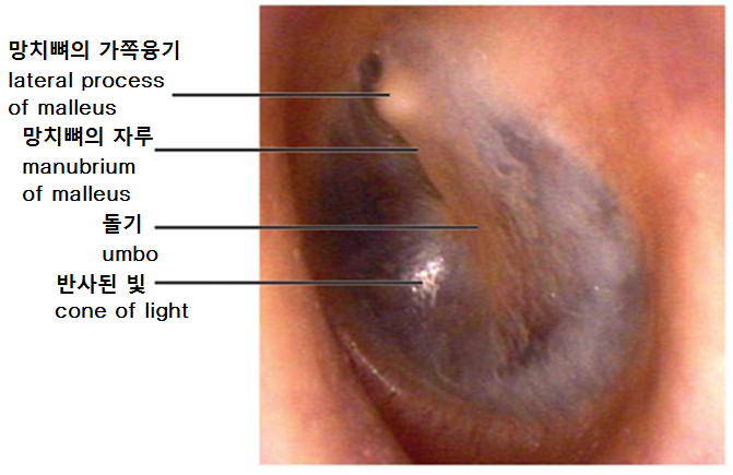 Tympanic membrane viewed by otoscope조선말: 이경을 통해 본 고막